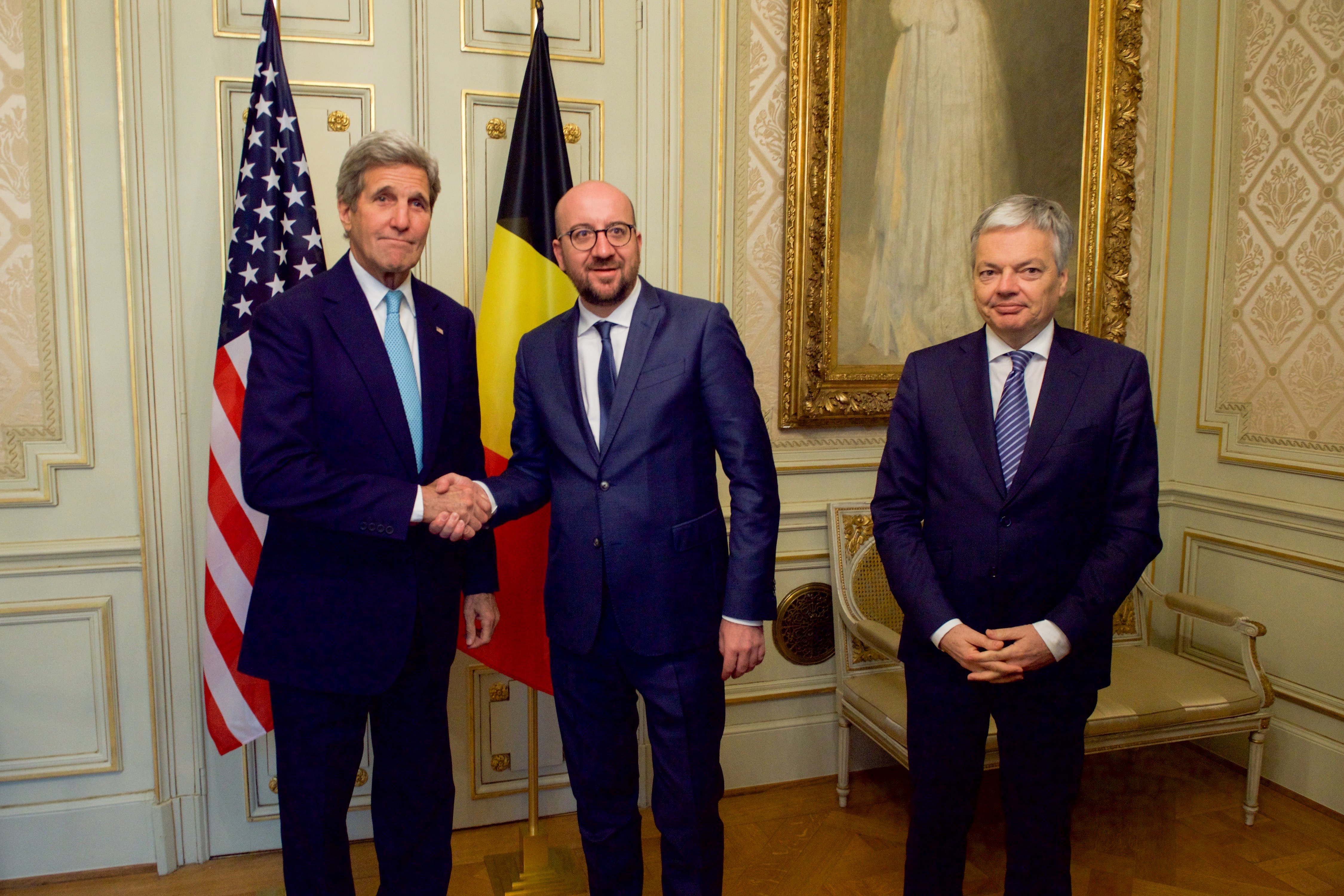 Belgian Foreign Minister Didier Reynders watches as Prime Minister Charles Michel shakes hands with U.S. Secretary of State John Kerry after he arrived at the Prime Minister’s Residence in Brussels, Belgium, on March 25, 2016, to pay condolences on behalf of the American people following the twin terrorists attacks earlier in the week on the city and country. [State Department photo/ Public Domain]